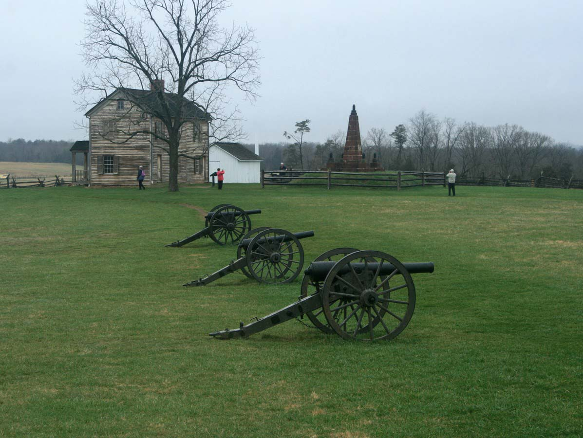 Henry House Hill, memorial Griffin's battery